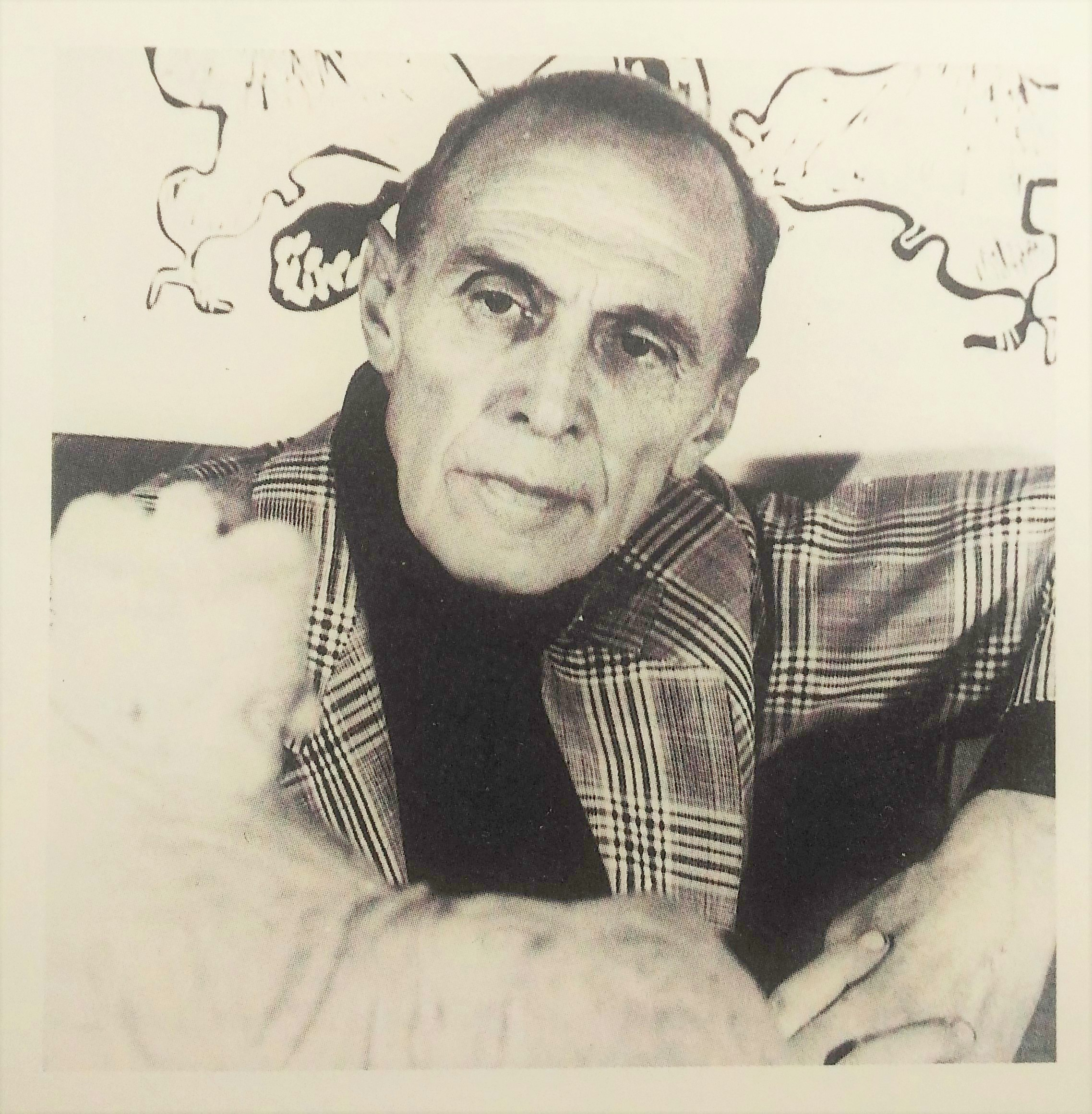 Un ritratto fotografico anni '70